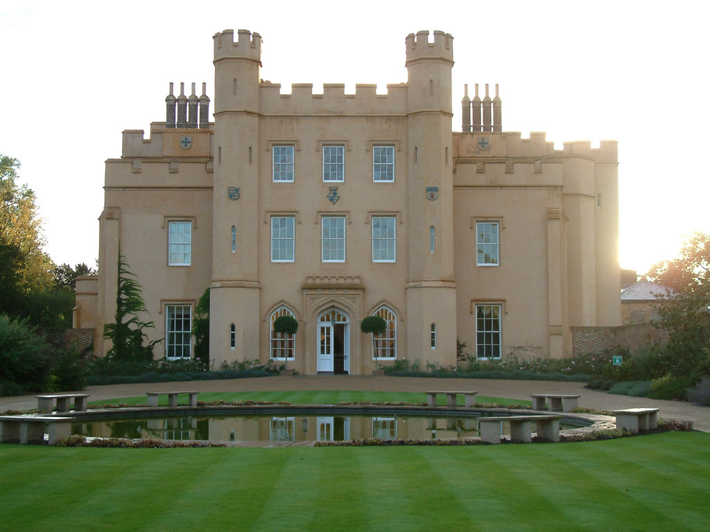 Ditton Park House. Taken by Op. Deo 2 Oct 2004